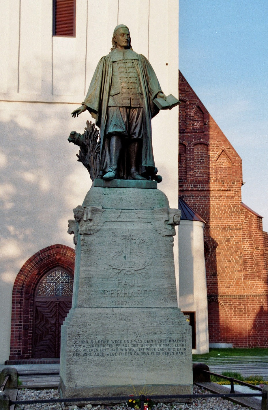 Paul Gerhardt monument created by Friedrich Pfannschmidt in front of the protestant Paul Gerhardt church (Paul-Gerhardt-Kirche) in Lübben, Landkreis Dahme-Spreewald, Brandenburg, Germany.